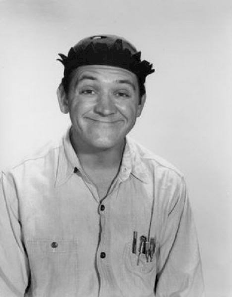 Photo of George Lindsey as Goober Pyle from The Andy Griffith Show.